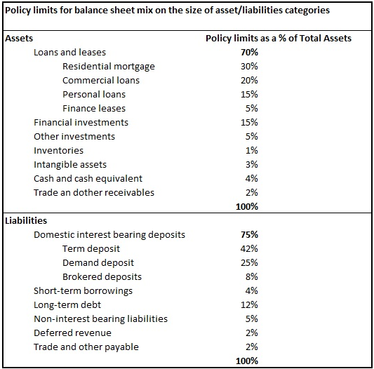 This table is an illustrative example of a balance sheet mix method. It has the objective to set portfolio limits on the maximum size of certain balance sheet categories and provide diversification mechanism between resources in front of products offered (assets) and thus risk diversity: appropriateness between the mix of deposits and other funding with the mix of asset helds.